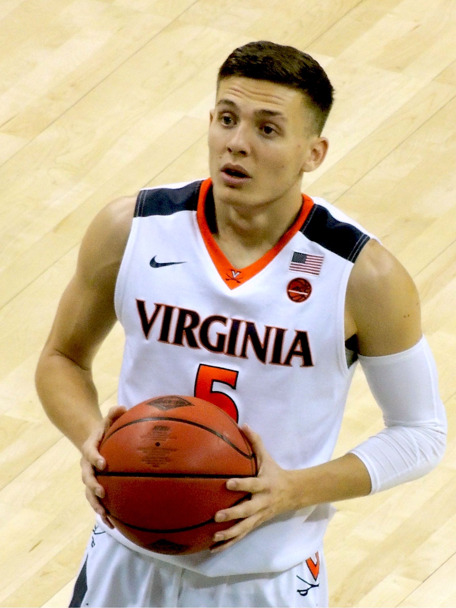 University of Virginia basketball player Kyle Guy prepares to shoot a free throw.